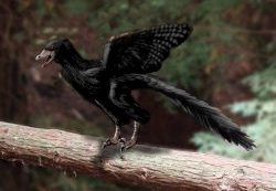 Archaeopteryx